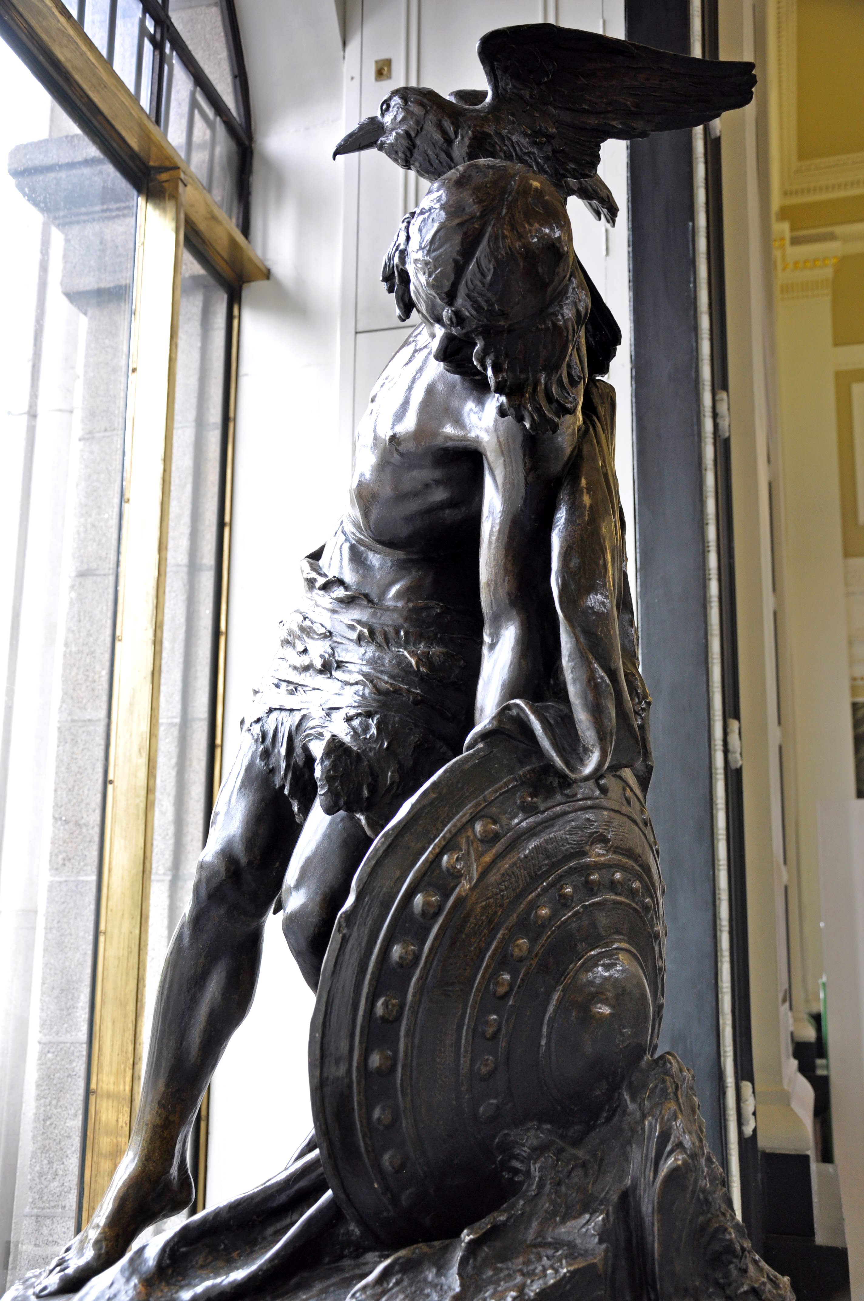 Cúchulainn statue in the General Post Office,Dublin